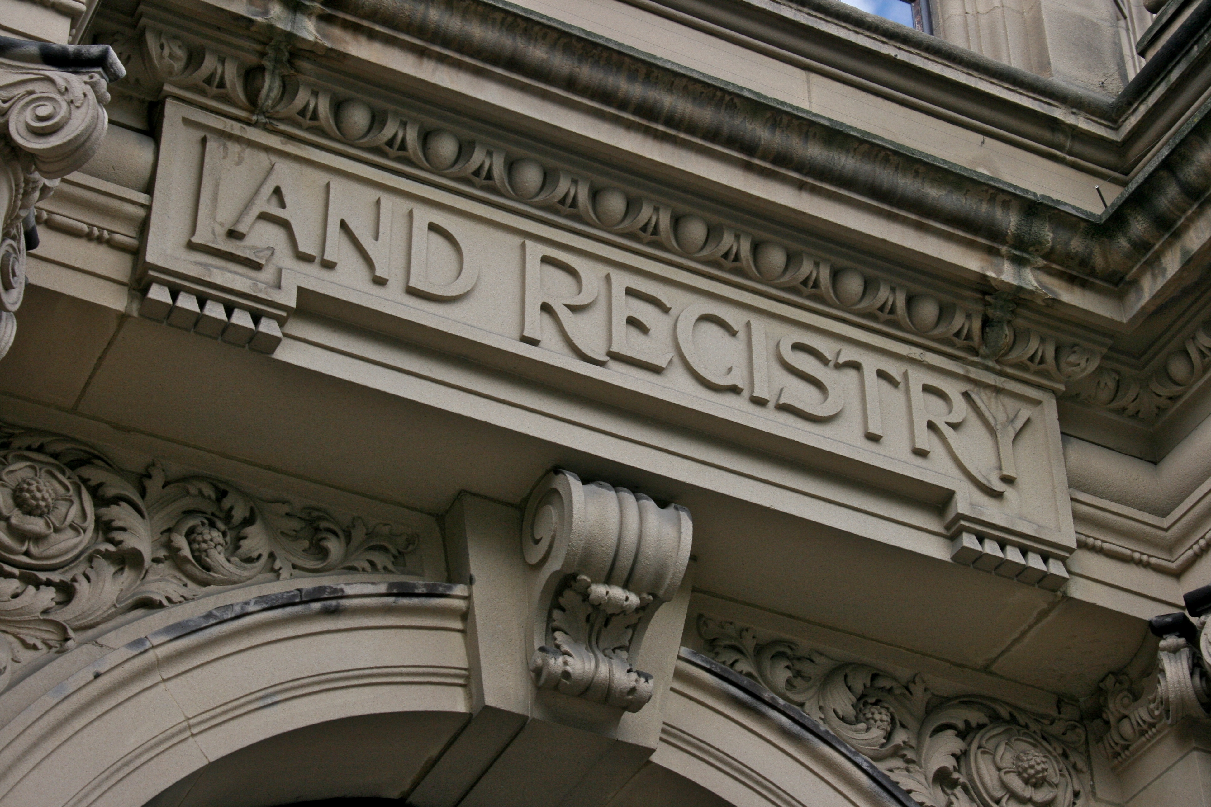 HM Land Registry name above the entrance way. Lincoln's Inn Fields.